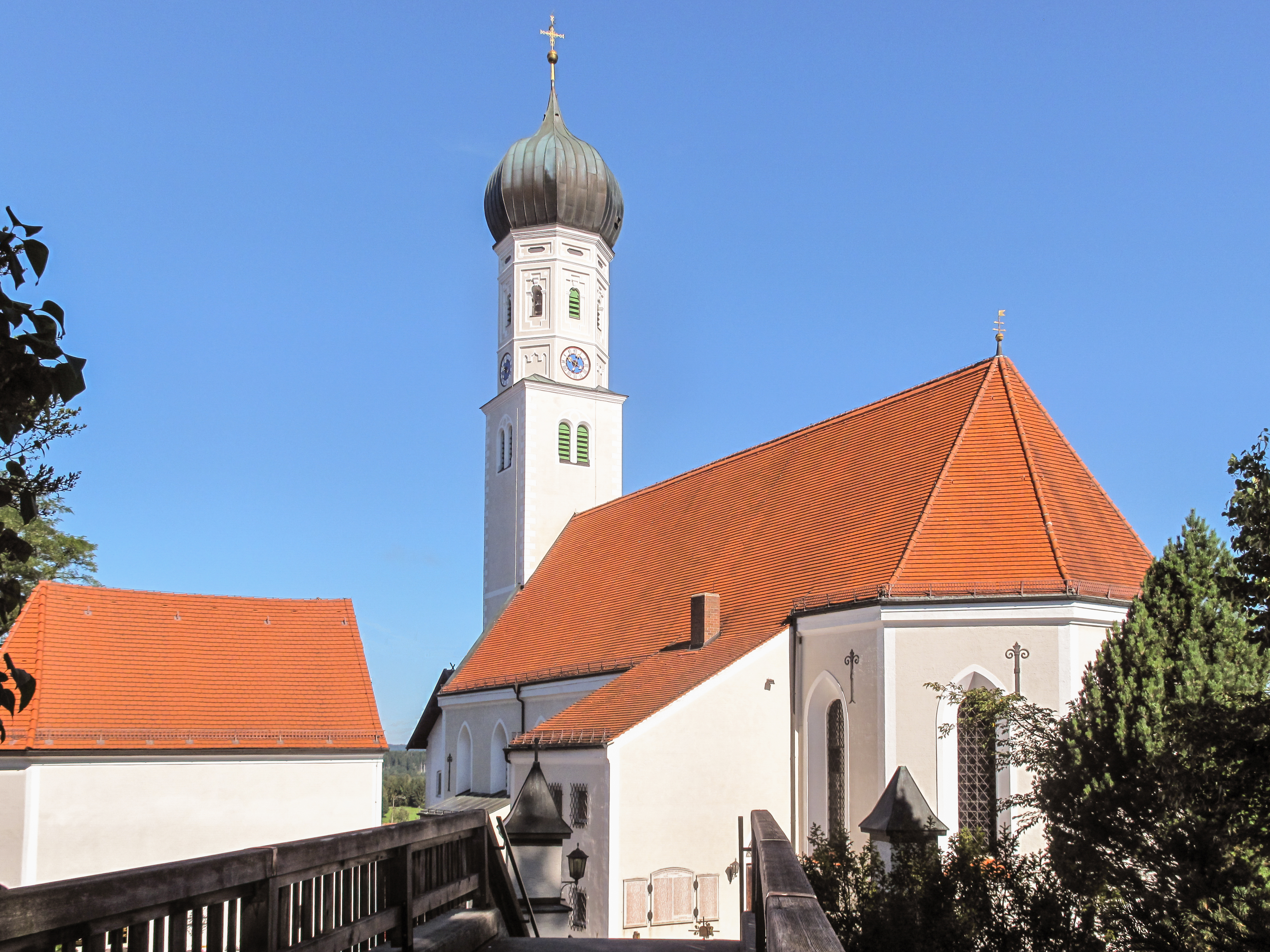 Köningsdorf, church: die Sankt Laurentius Kirche